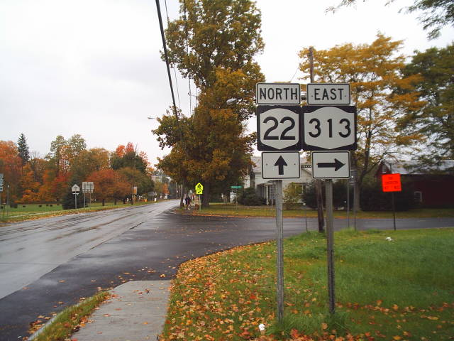 New York State Route 22 at the intersection of New York State Route 313, which ends here.